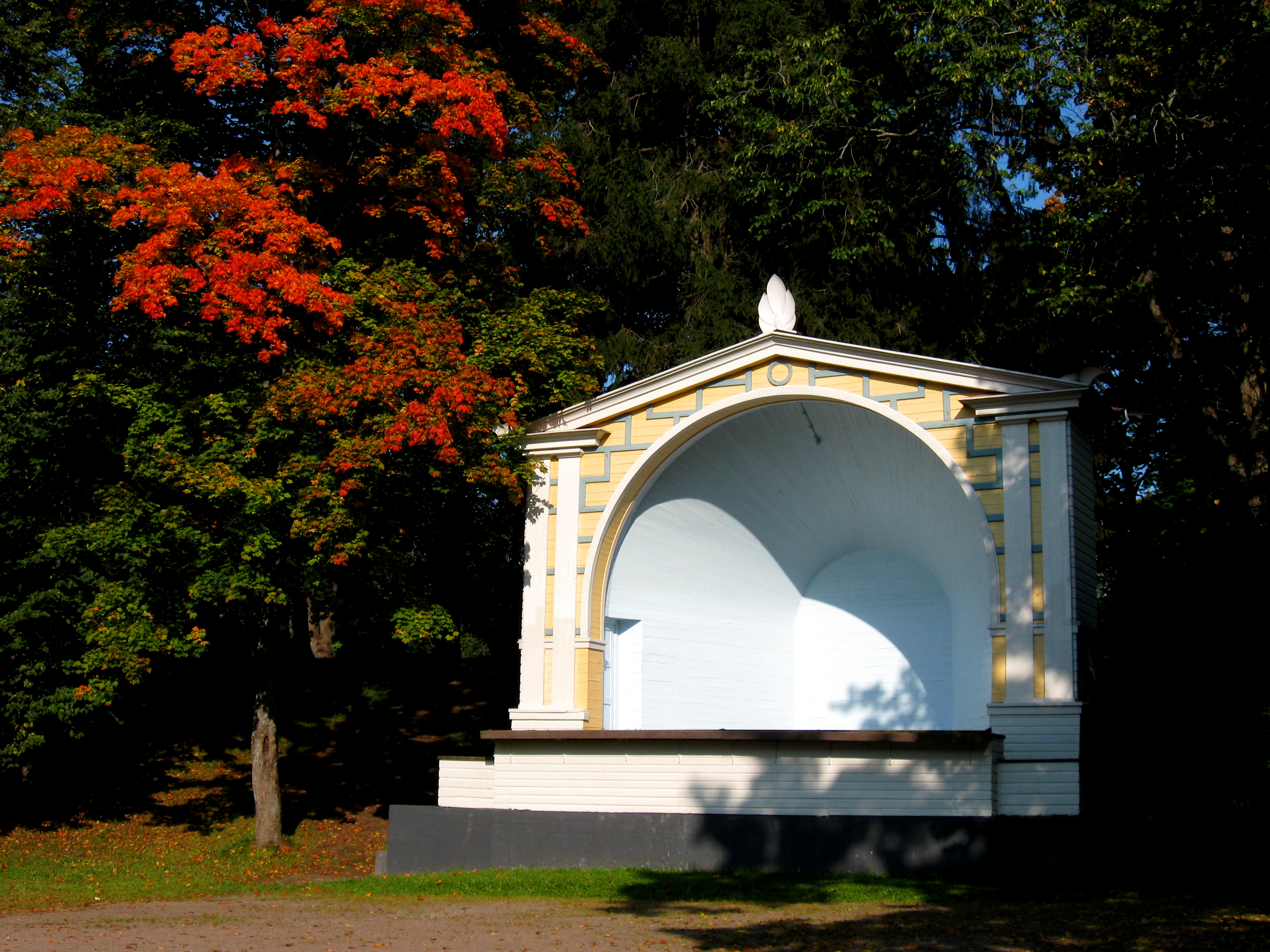 A stage in Pusupuisto (Vanhapuisto) park in Lappeenranta, Finland. Designed by Otto-Iivari Meurman in 1926.